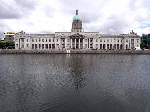 The Customs House, Dublin Looking across the River Liffey to the Customs House, one of the finest of many fine buildings in Dublin.